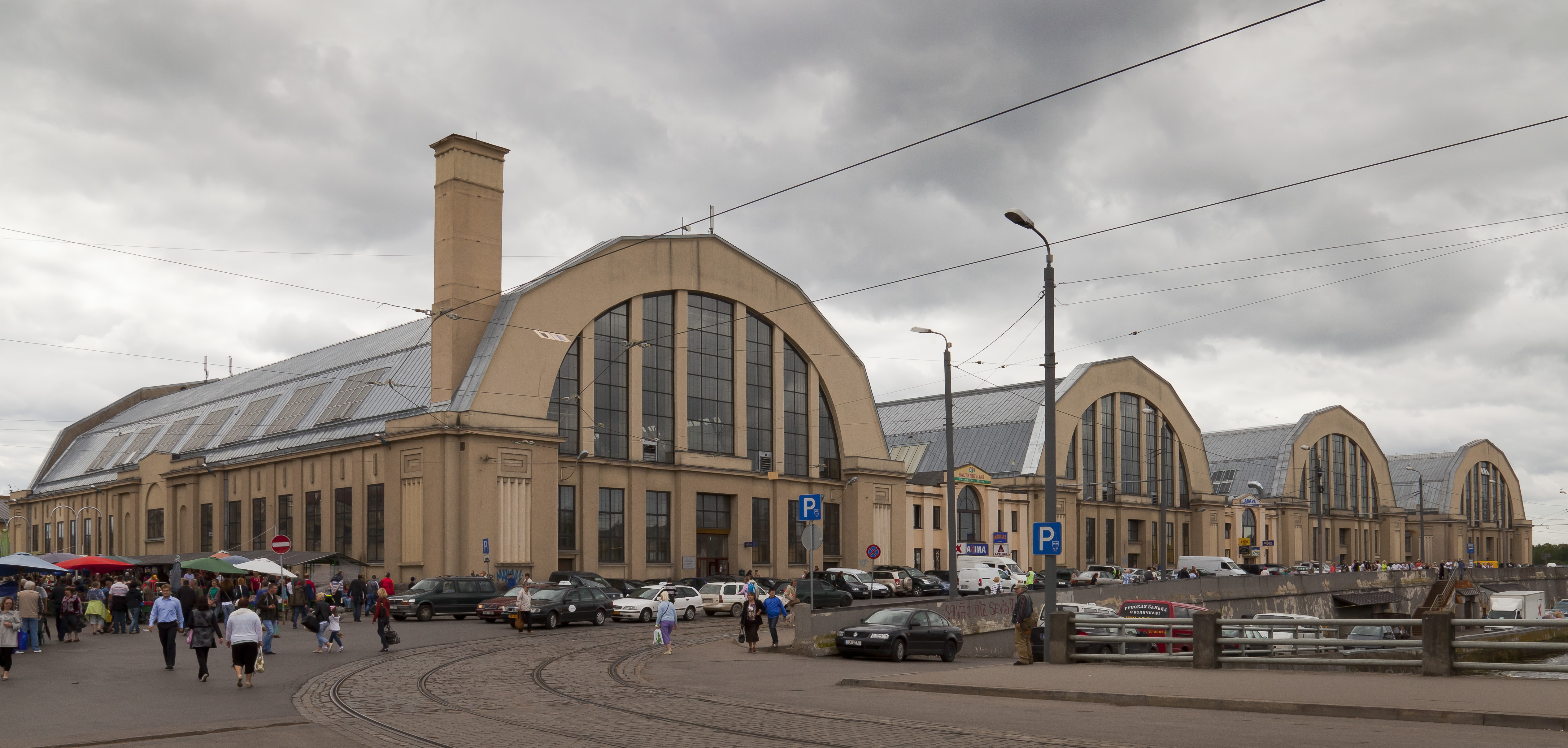 Market hall, Riga, Latvia